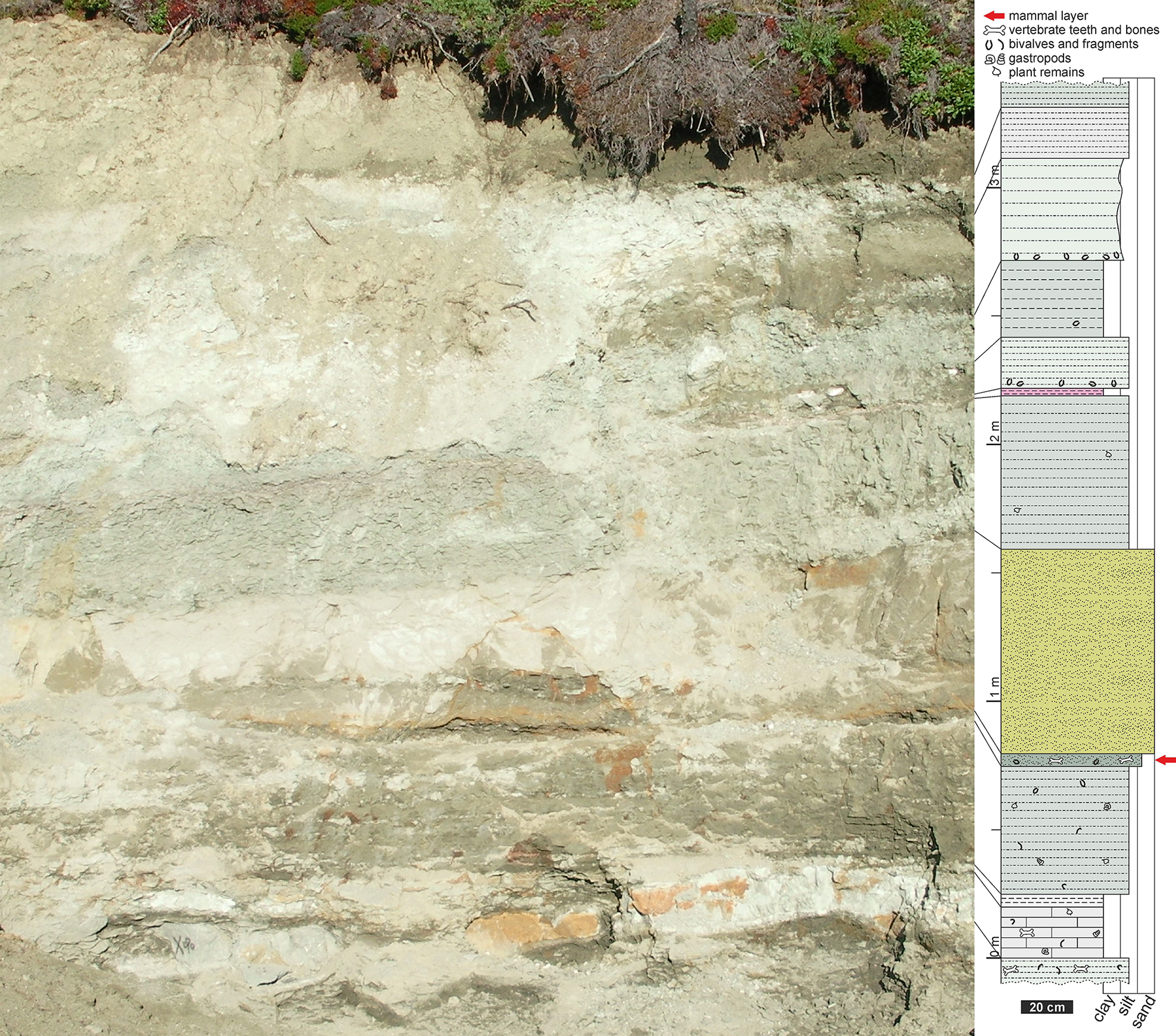 Lithology of the Teete Microvertebrate locality, with stratigraphic column. Part of the Early Cretaceous Batylykh Formation in Yakutia, Russia. Figure from the open access publication Averianov A, Martin T, Lopatin A, Skutschas P, Schellhorn R, et al. (2018) A high-latitude fauna of mid-Mesozoic mammals from Yakutia, Russia. PLOS ONE 13(7): e0199983.